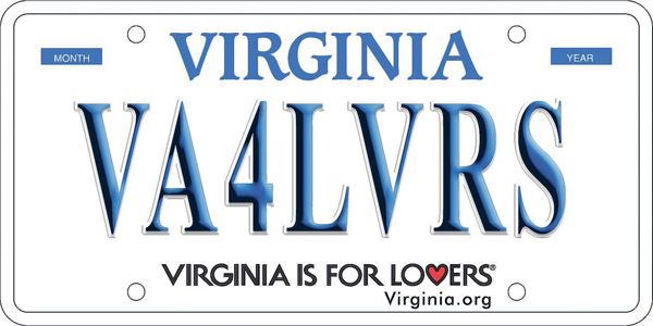 Virginian automotive license plate from March 2014 to the present.